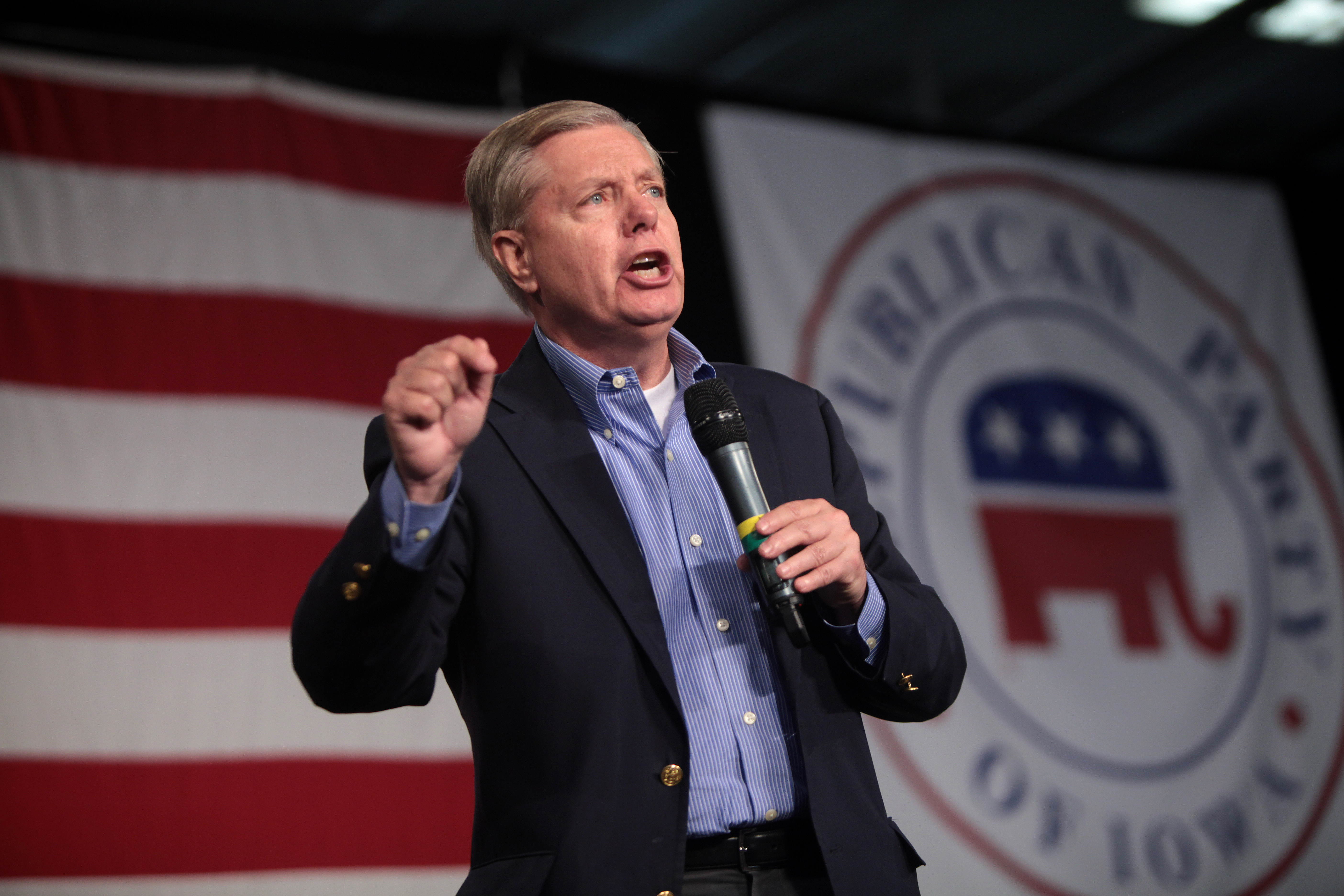 Lindsey Graham speaking at the Iowa GOP's Growth and Opportunity Party in Des Moines, Iowa on October 31, 2015.